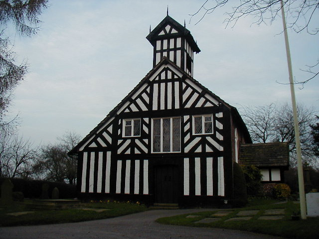 Photograph